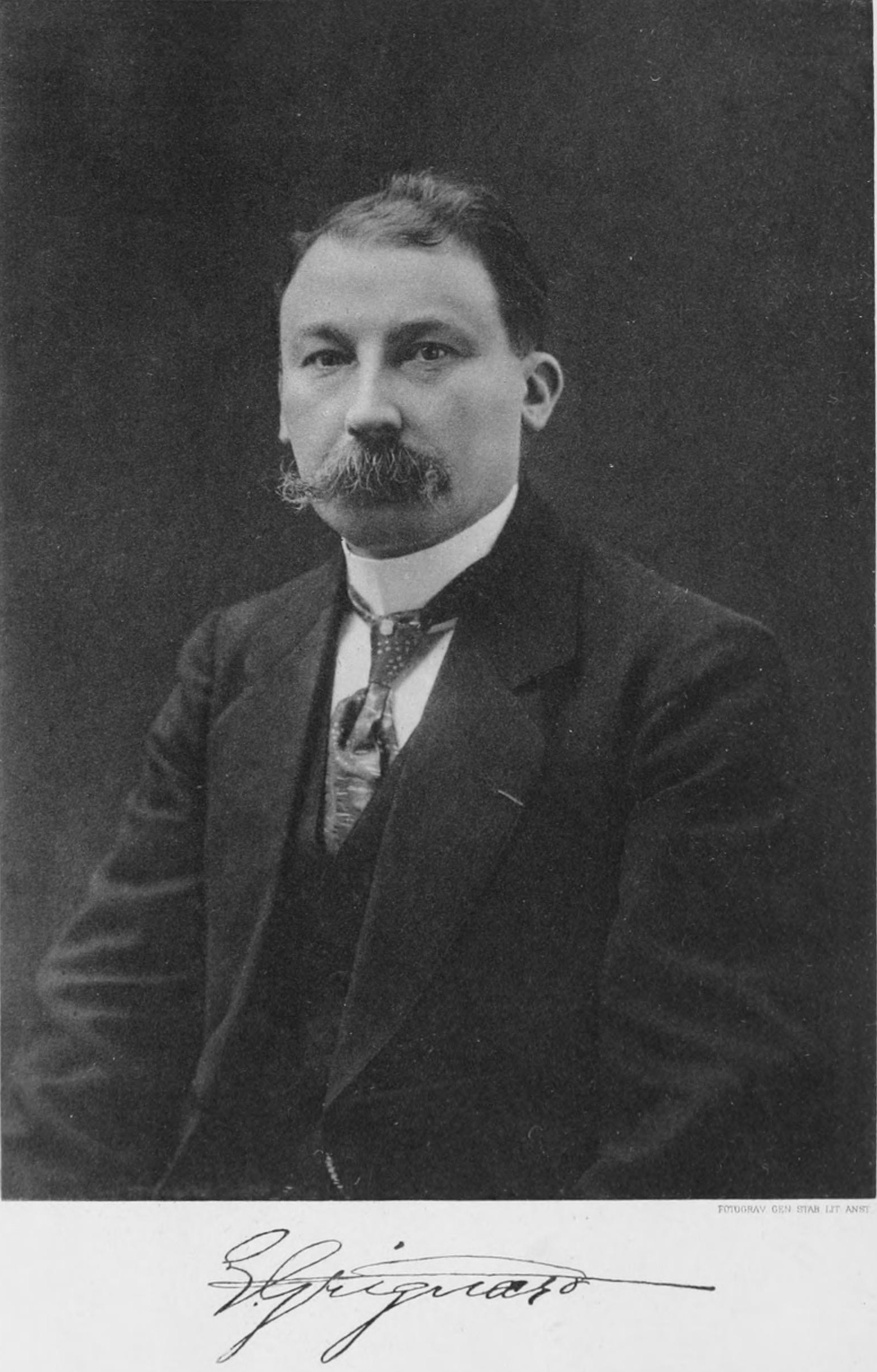 François Auguste Victor Grignard (* 6. Mai 1871 in Cherbourg; † 13. Dezember 1935 in Lyon)